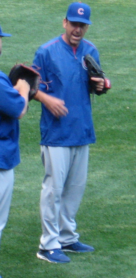 Mike Borzello of the Chicago Cubs, June 30, 2016.